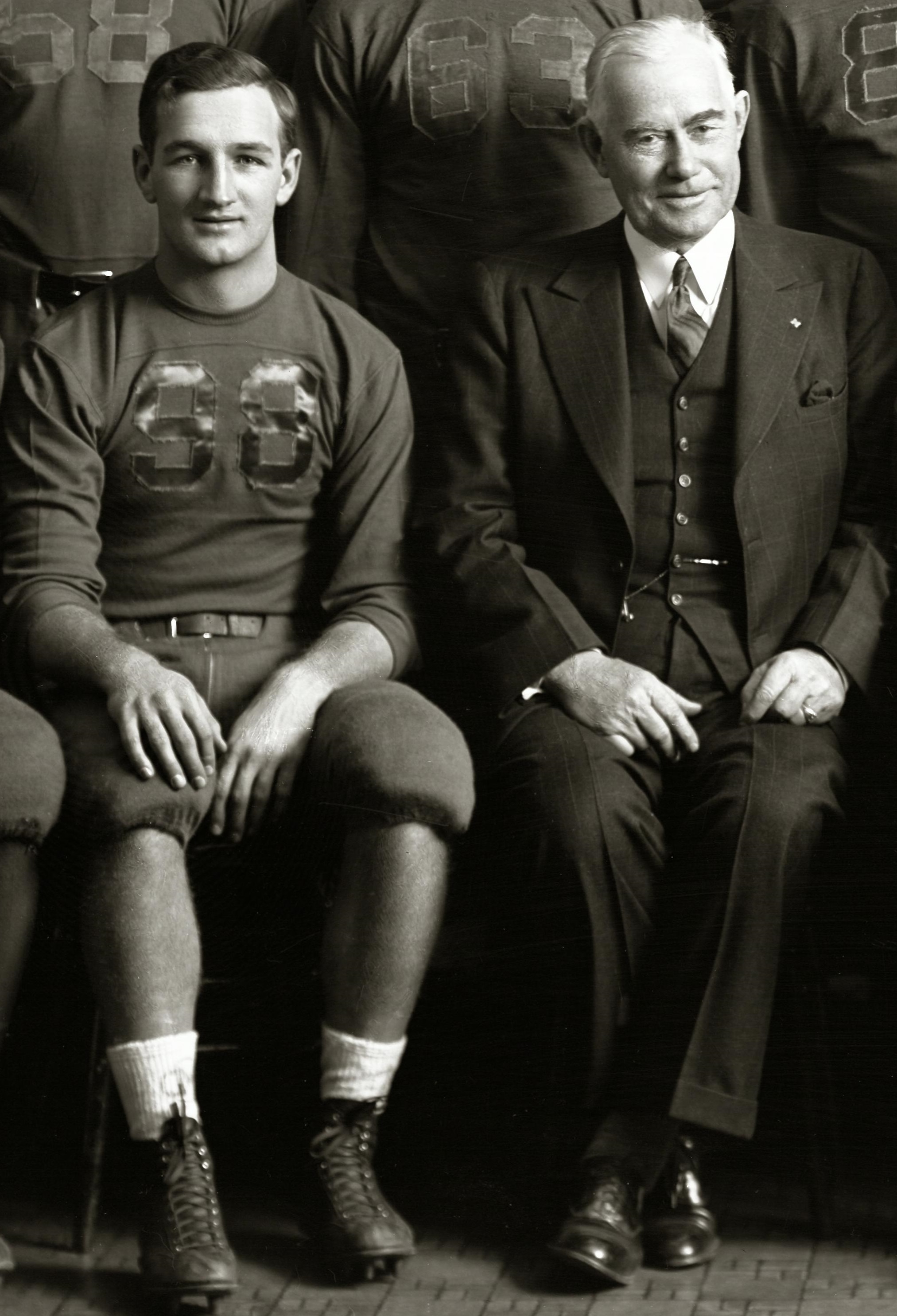 Photograph of University of Michigan athlete Tom Harmon and athletic director Fielding H. Yost cropped from team portrait of 1940 Michigan Wolverines football team